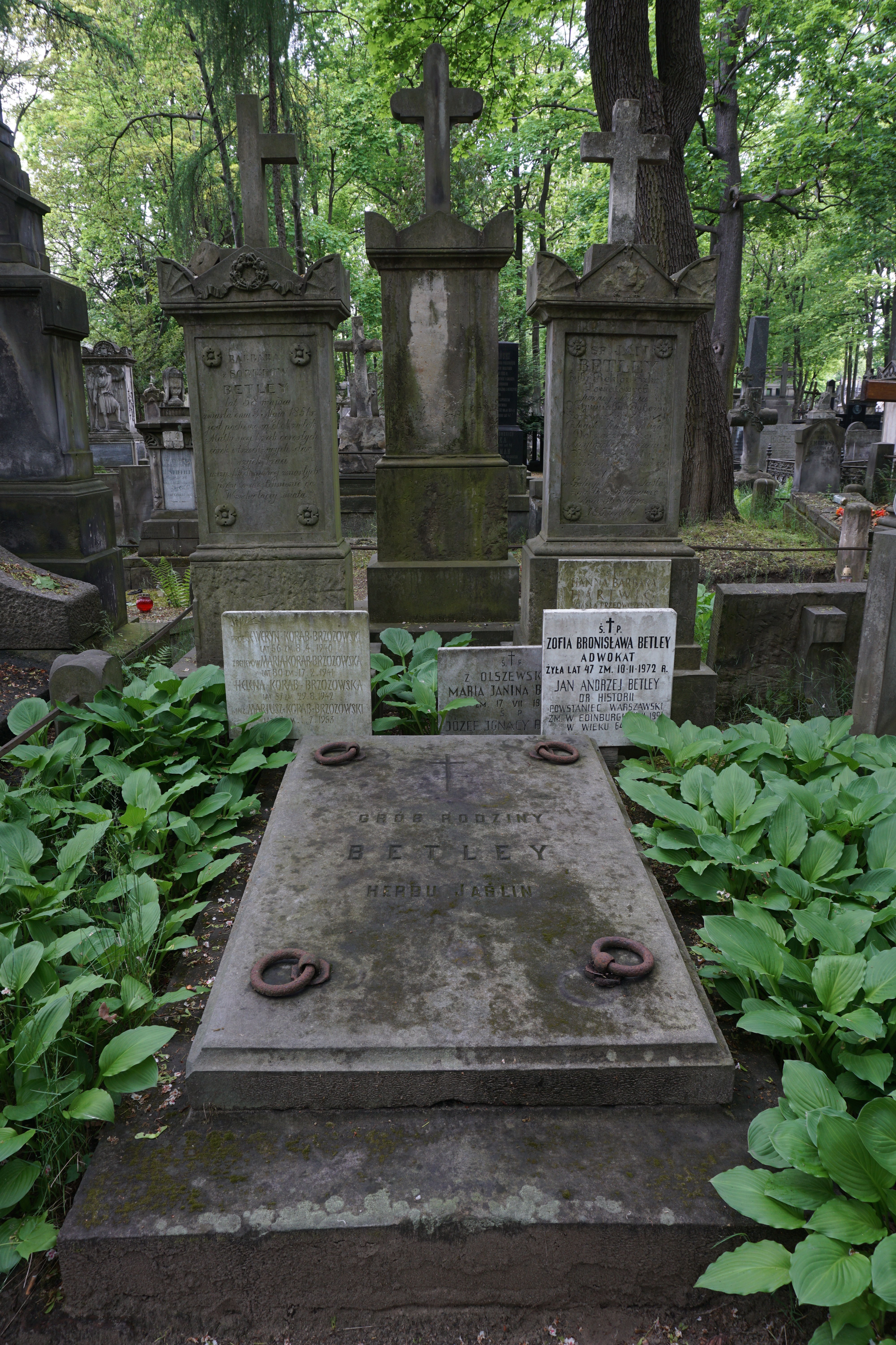 The grave of Jan Andrzej Betley at the Powązki Cemetery (section 12, row 3, 4, grave 17, 18, 19, 20)